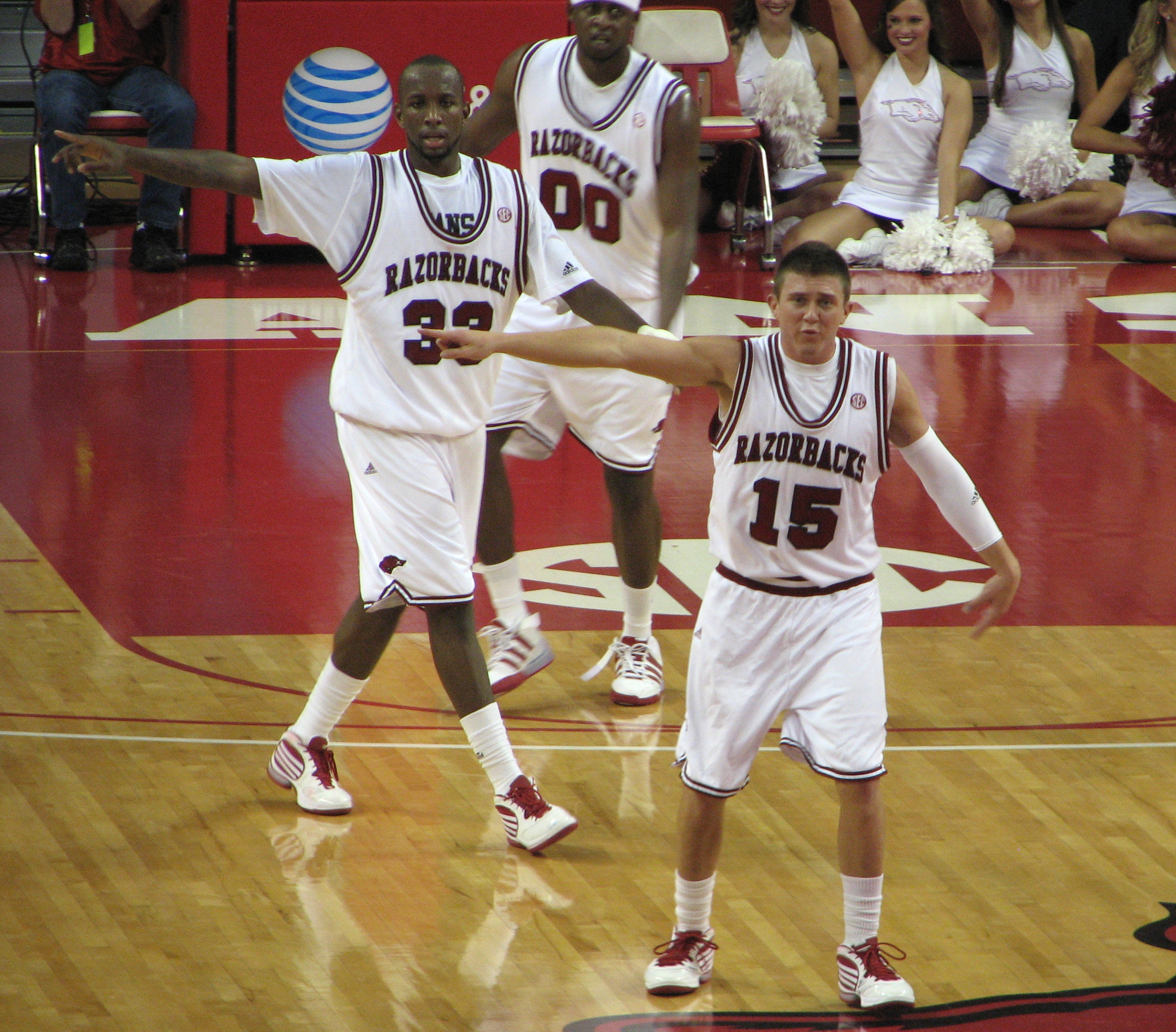 Rotnei Clarke (front) and his Arkansas teammate prepare to defend against Morgan State on November 25, 2009.